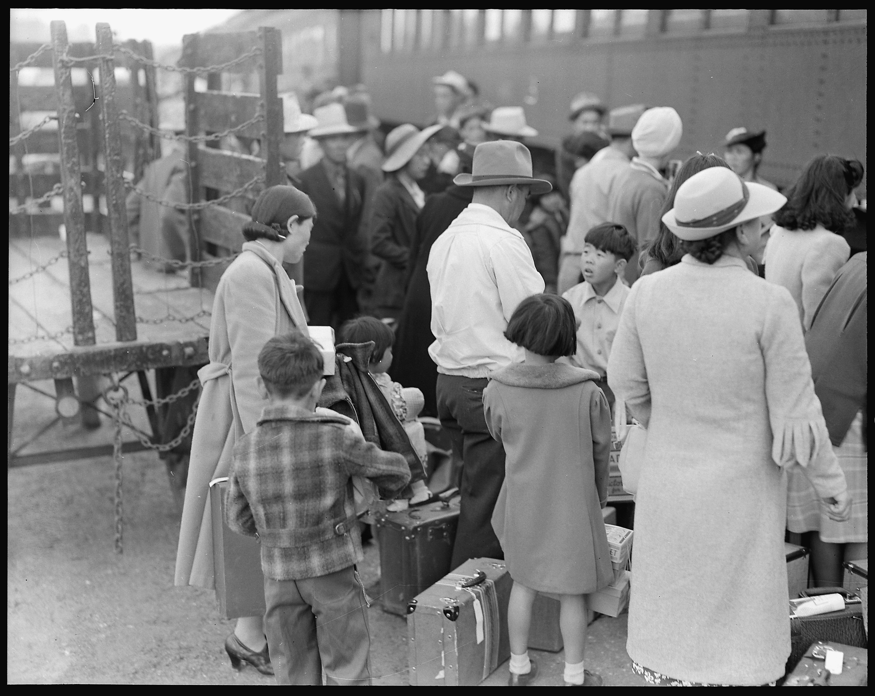 Scope and content: The full caption for this photograph reads: Woodland, California. Farm families of Japanese ancestry waiting at the railroad station for the special train which will take them to the Merced Assembly center, about 125 miles away. Approximately 750 persons are being evacuated from this area in two days, in two special trains.